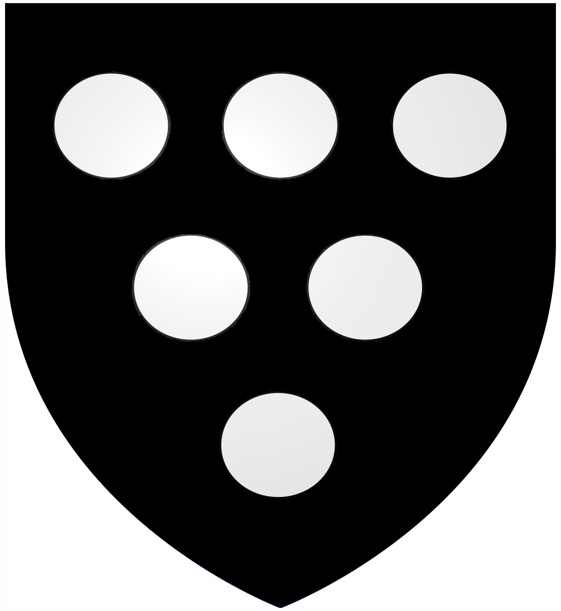 Arms of Punchardon, of Heanton Punchardon, Devon, according to Guillim (d.1621): Sable, six plates three, two, one (Guillim, John, Display of Heraldry, 1632, p.297)